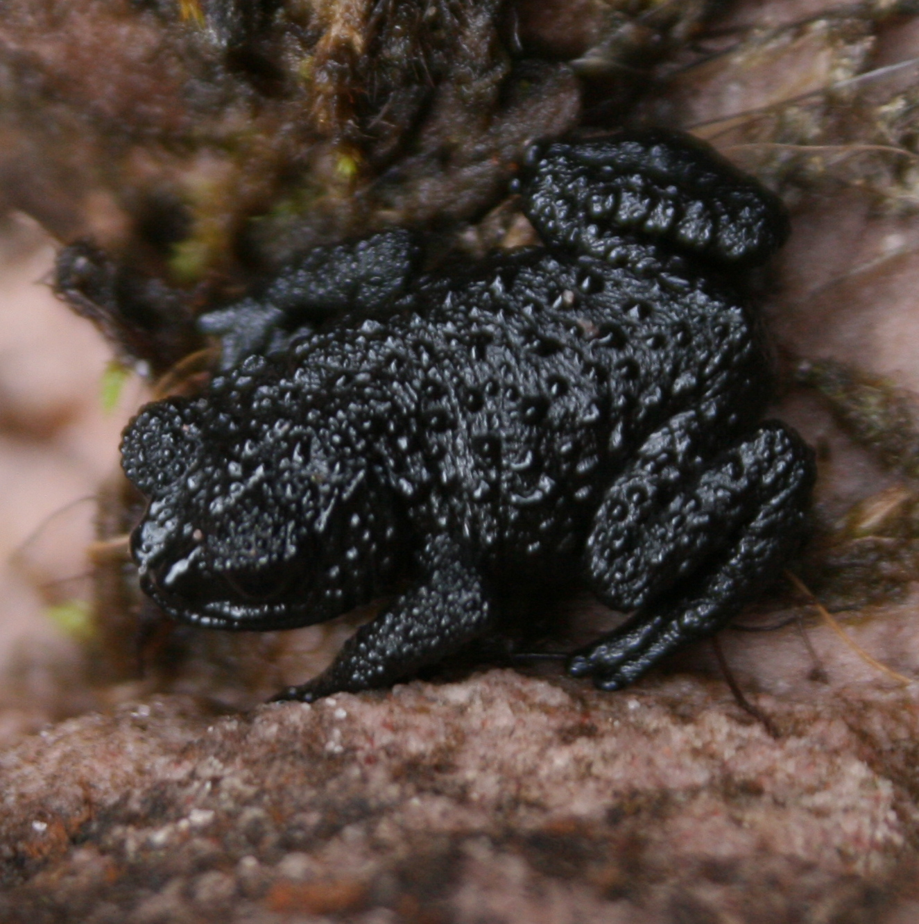 Oreophrynella nigra at mount Roraima, Venezuela